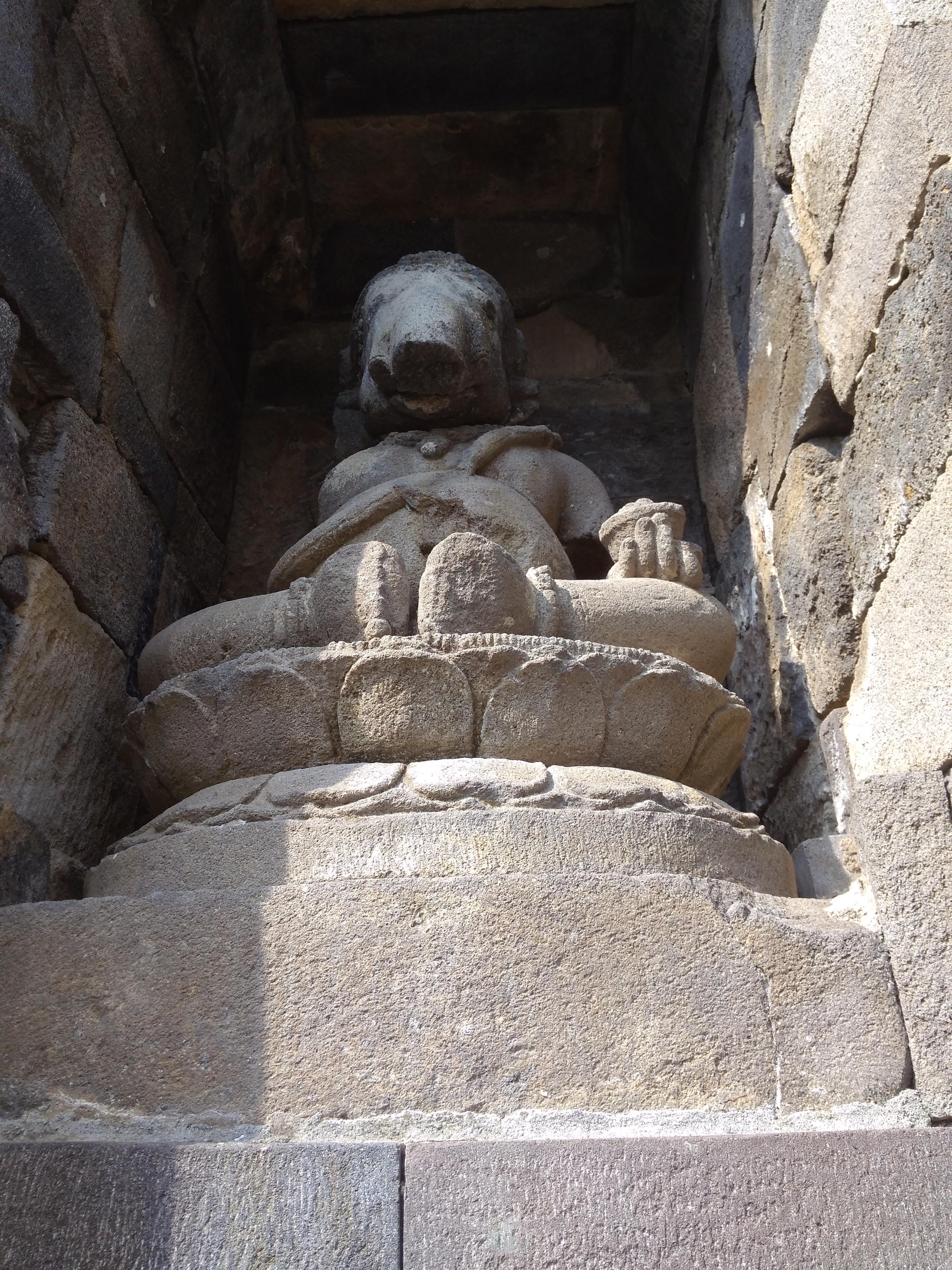 Ganesha statue of Candi Merak at Klaten